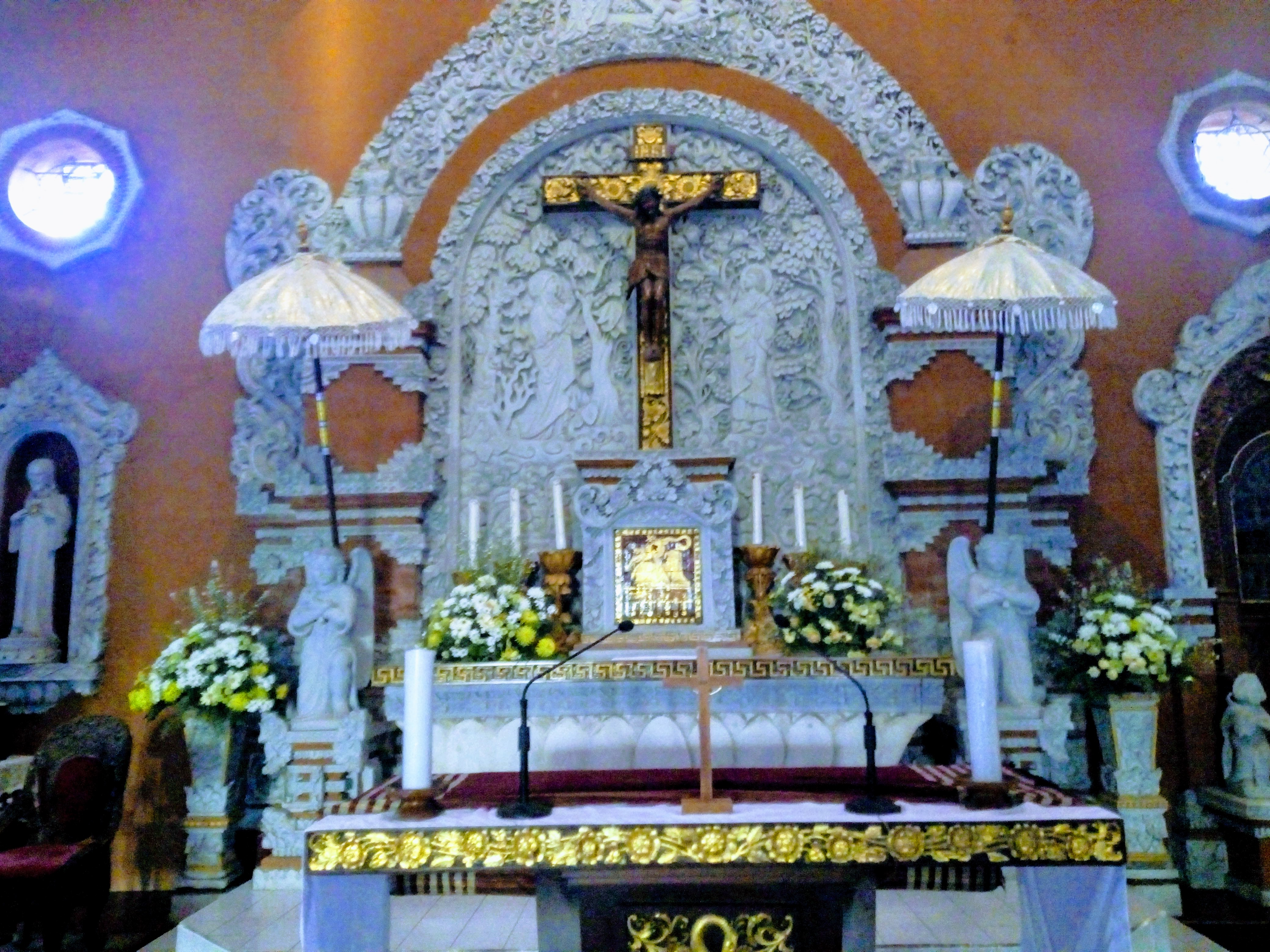 Saint Joseph's Church, Denpasar Altar